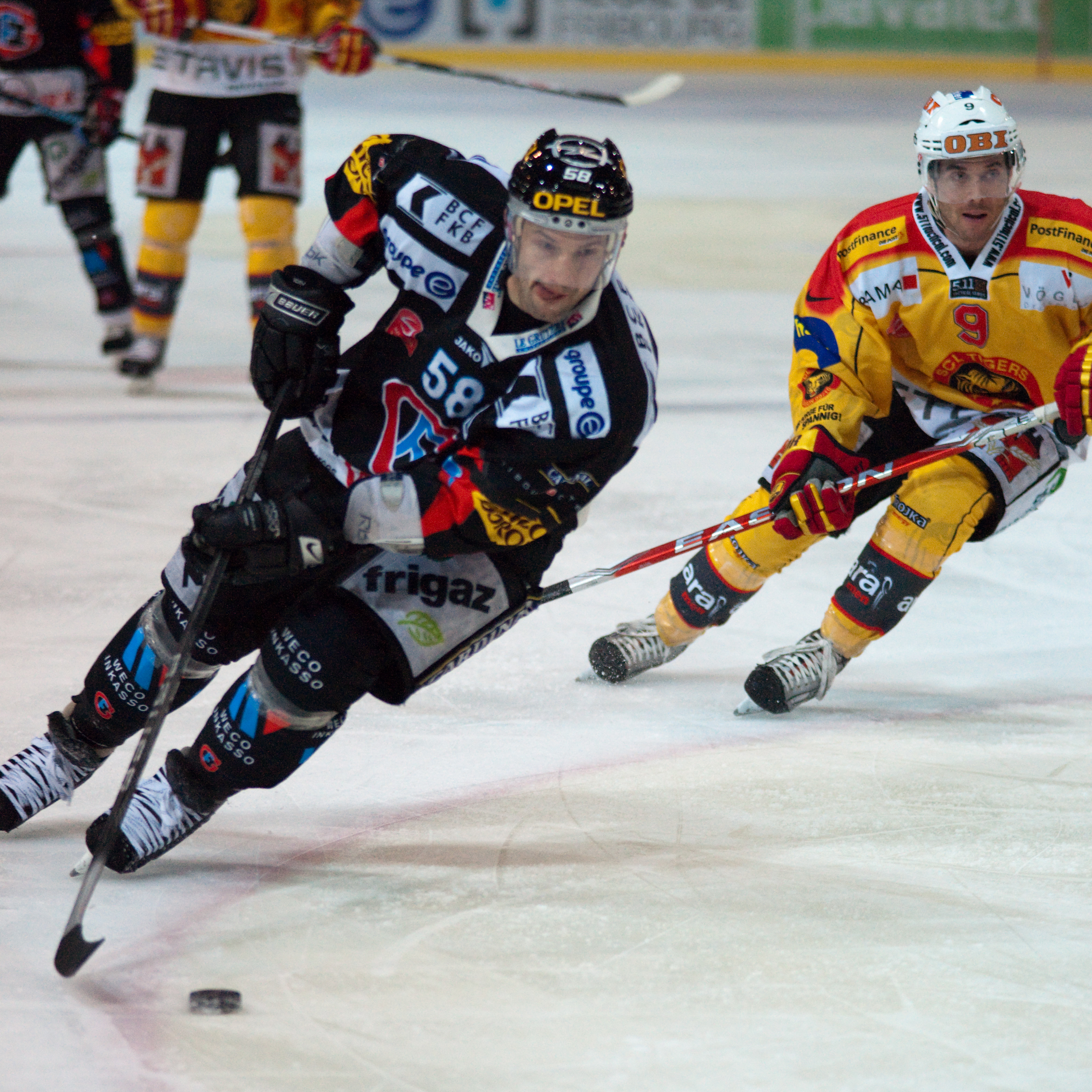 Sandy Jeannin (L), Sven Helfenstein (R), Fribourg-Gottéron vs. Langnau Tigers, 15th January 2010.